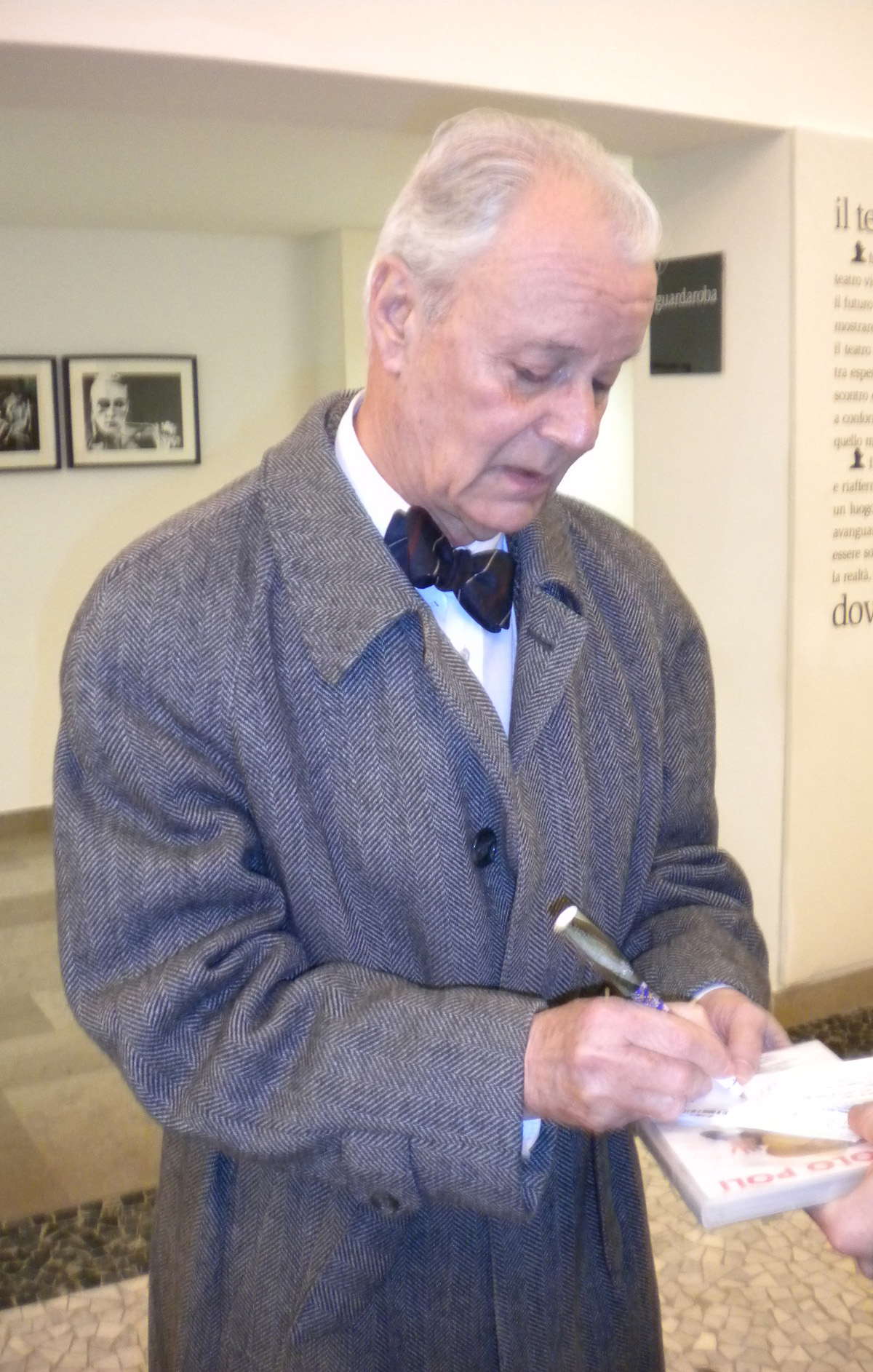 Paolo Poli, Aquiloni show, Milan, January 2013